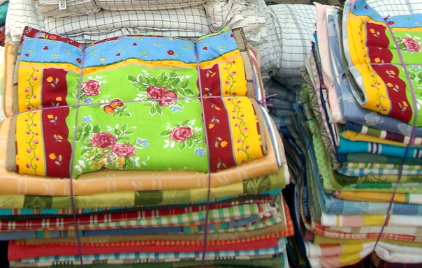 Rugs on sale in Erode, India.